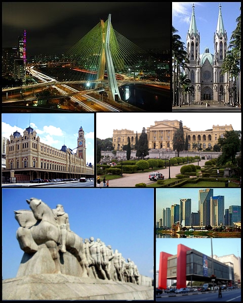 Photo montage of the city of São Paulo, Brazil